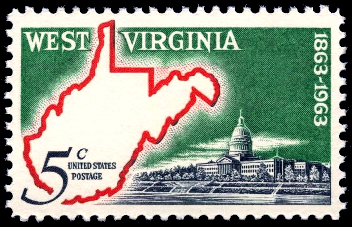 West Virginia Centennial 5-cent stamp issue, 1963